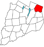 Otsego County outline map with Cherry Valley in red